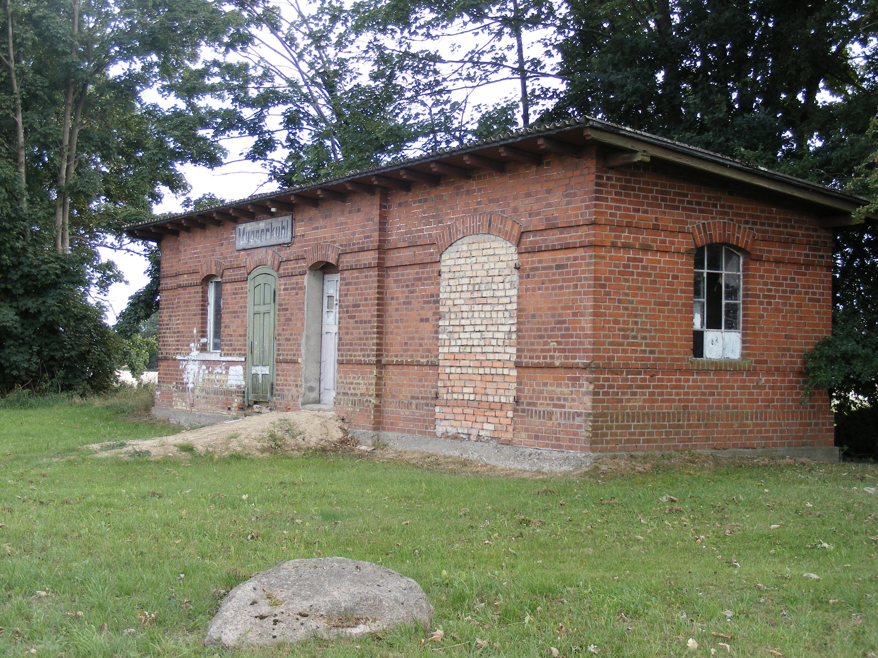 Former Muggerkuhl railway station, Berge (Prignitz), Brandenburg, Germany